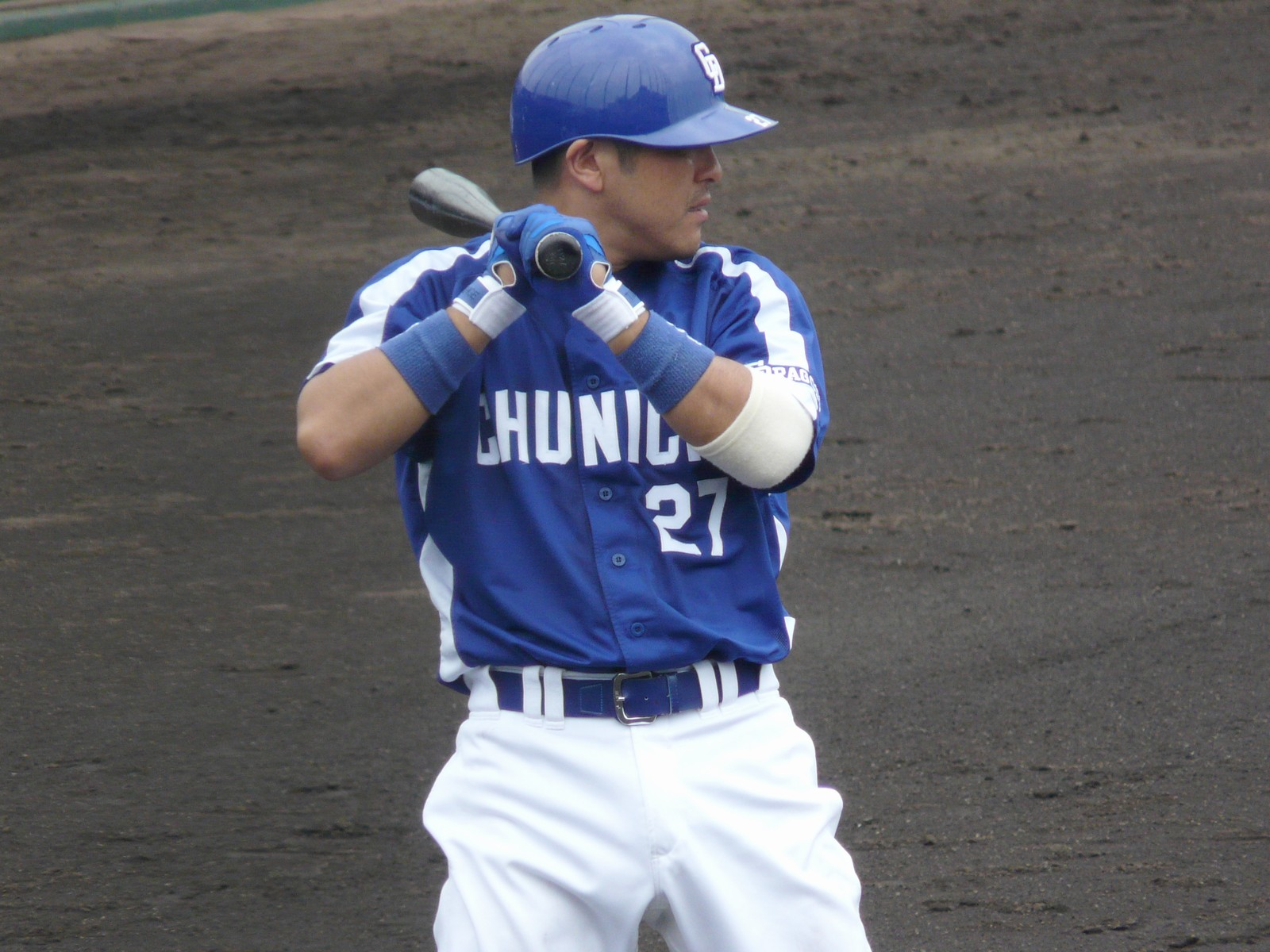 Copied from 画像:CD-Motonobu-Tanishige.jpg: "谷繁元信"